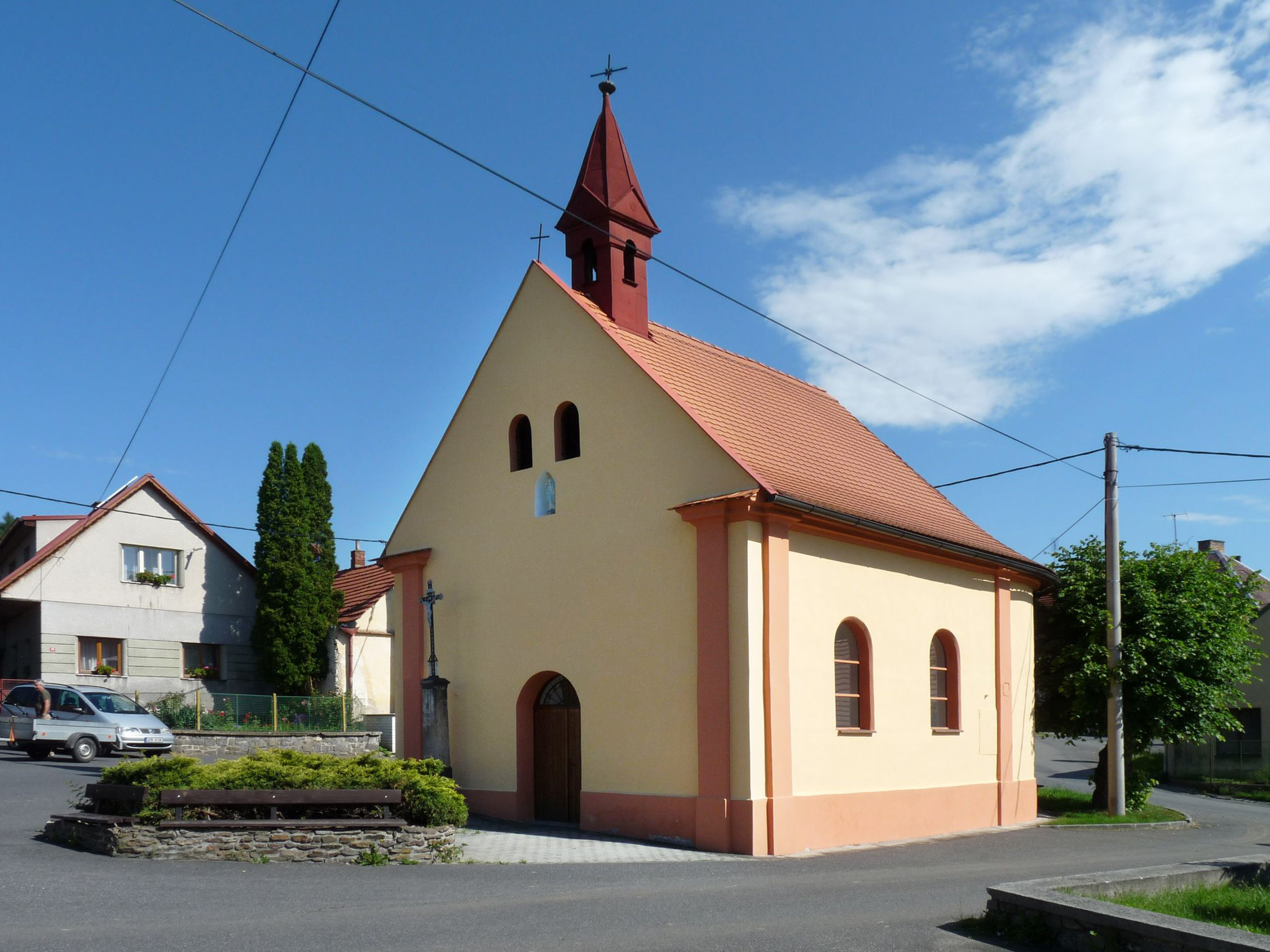 Chapel in the municipality of Podmokly, Klatovy District, Plzeň Region, Czech Republic.